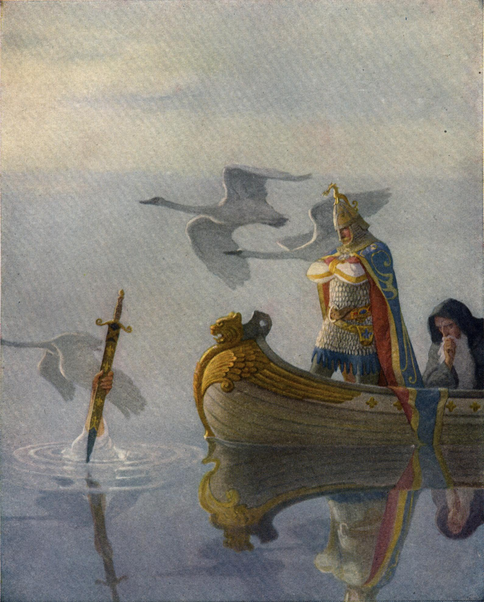 Illustration from page 16 of The Boy's King Arthur: "And when they came to the sword that the hand held, King Arthur took it up."